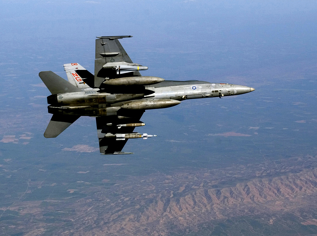 Iraq (Mar. 27, 2005) - An F/A-18C Hornet, assigned to the "Argonauts" of Strike Fighter Squadron One Four Seven (VFA-147), rolls into a turn while flying a combat mission over Iraq. The Carl Vinson Carrier Strike Group is conducting operations in support of multi-national forces in Iraq and maritime security operations in the Persian Gulf. Carl Vinson will end its deployment with a homeport shift to Norfolk, Va., and will conduct a three-year refuel and complex overhaul. U.S. Navy photo by Cmdr. Don Berry (RELEASED)